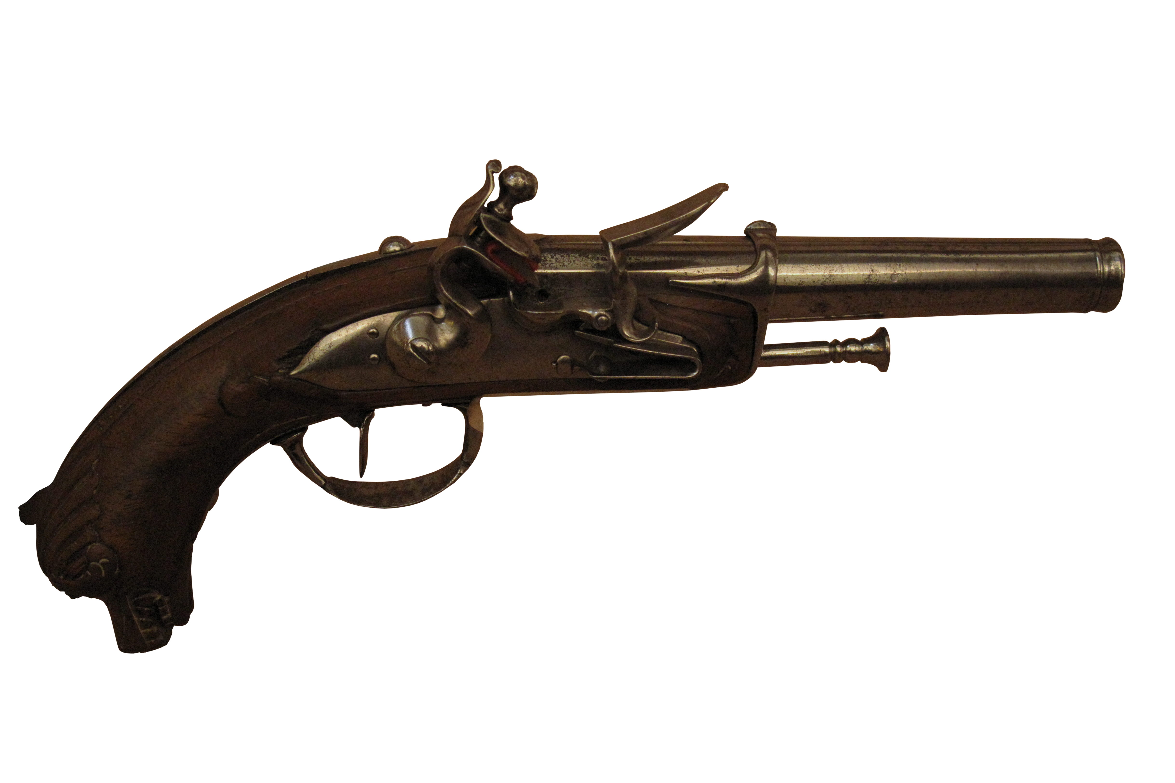 Non-regulation weapon, inspired by the ordnance 1779 pattern Navy pistol, carried inside a pocket.